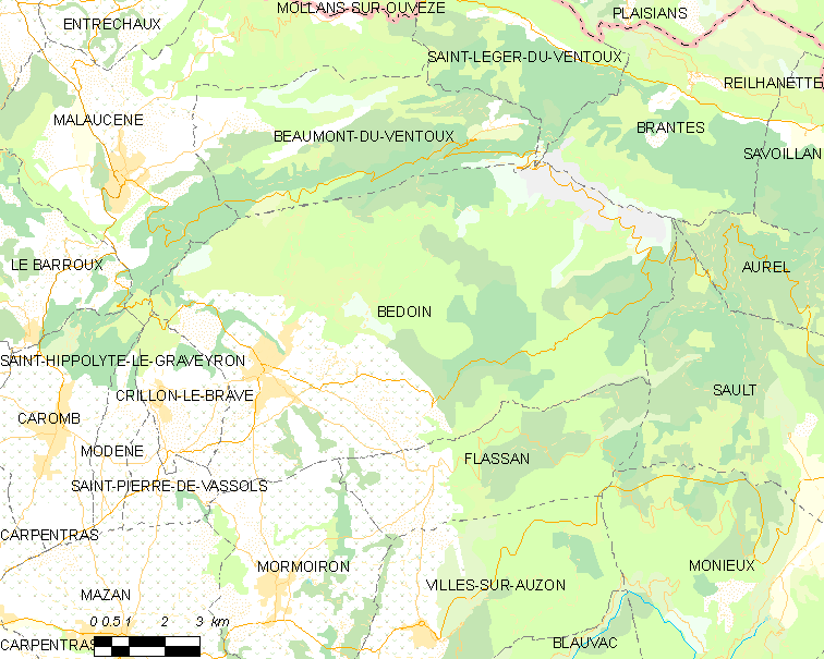 Map of French municipality Bédoin